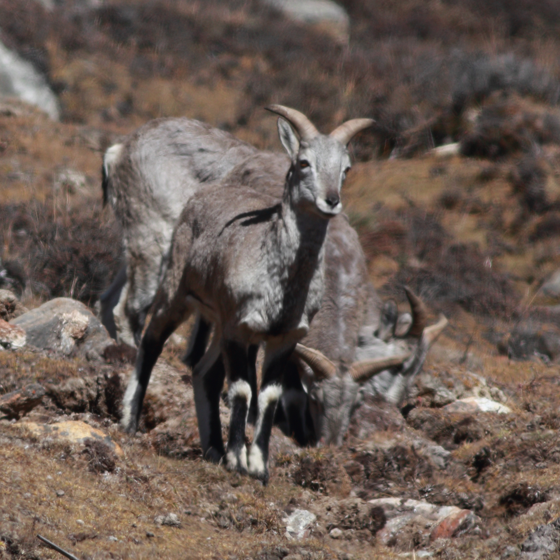 The species Bharal (Males) had been photographed from North Sikkim, India on 16.10.2019. during wildlife photo tour.